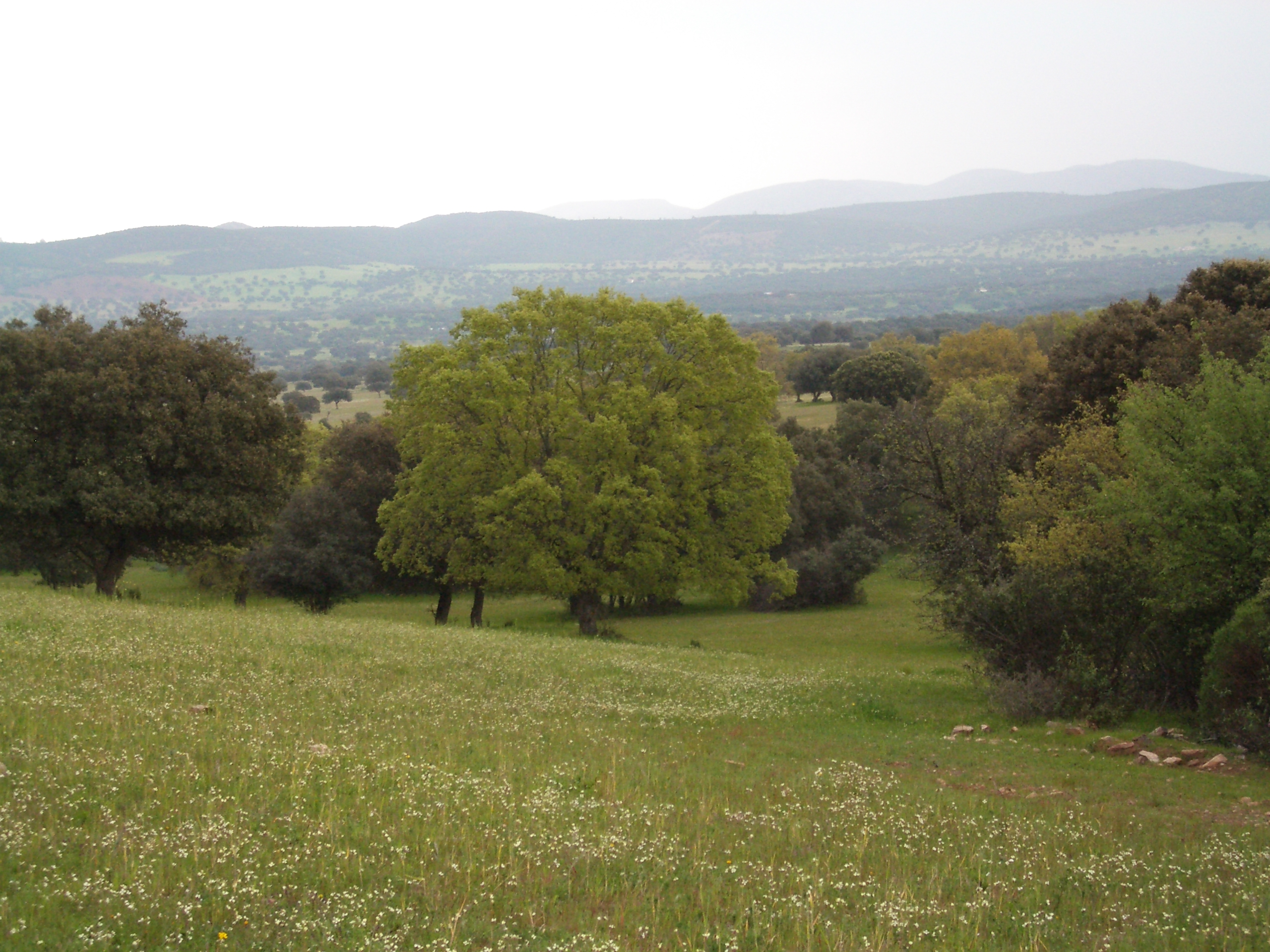 Meditarranean forest in Spain